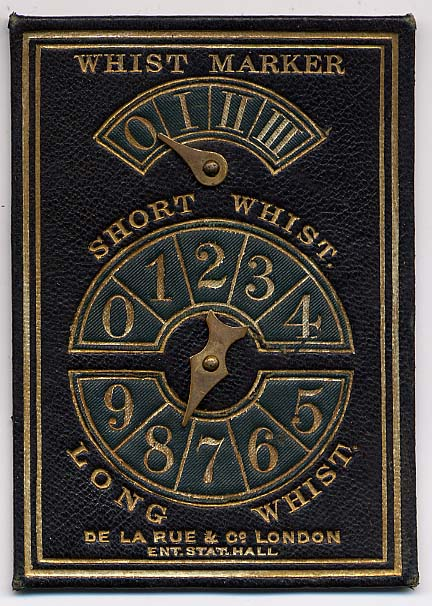 A leather Whist marker produced by the English cardmaker Charles Goodall by the end of the 19th century.